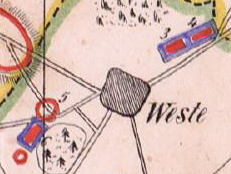 Prehistoric tombs near Weste